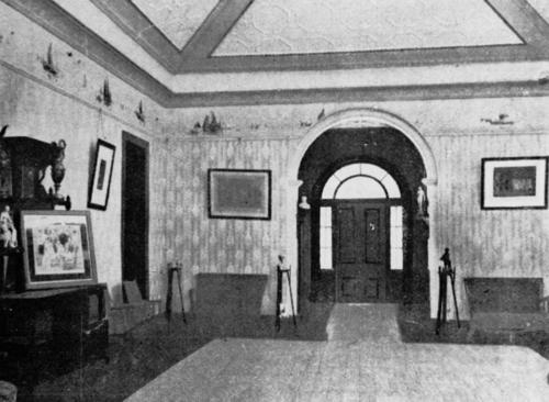 This is the ballroom of St John's Wood home known as the Granite House home of Justice George Rogers Harding.